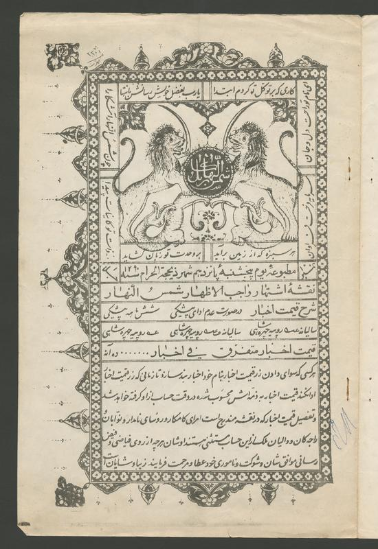 First ever printed periodical from Afghanistan, published during the reign of Amir Shīr ʻAlī Khān in 1873-1877 برگ اول جریدۀ شمس‌النهار، نخستین روزنامۀ افغانستان که در زمان سلطنت امیر شیرعلی‌خان، بین سال‌های ۱۸۷۳-۱۸۷۷ به نشر می‌رسید.